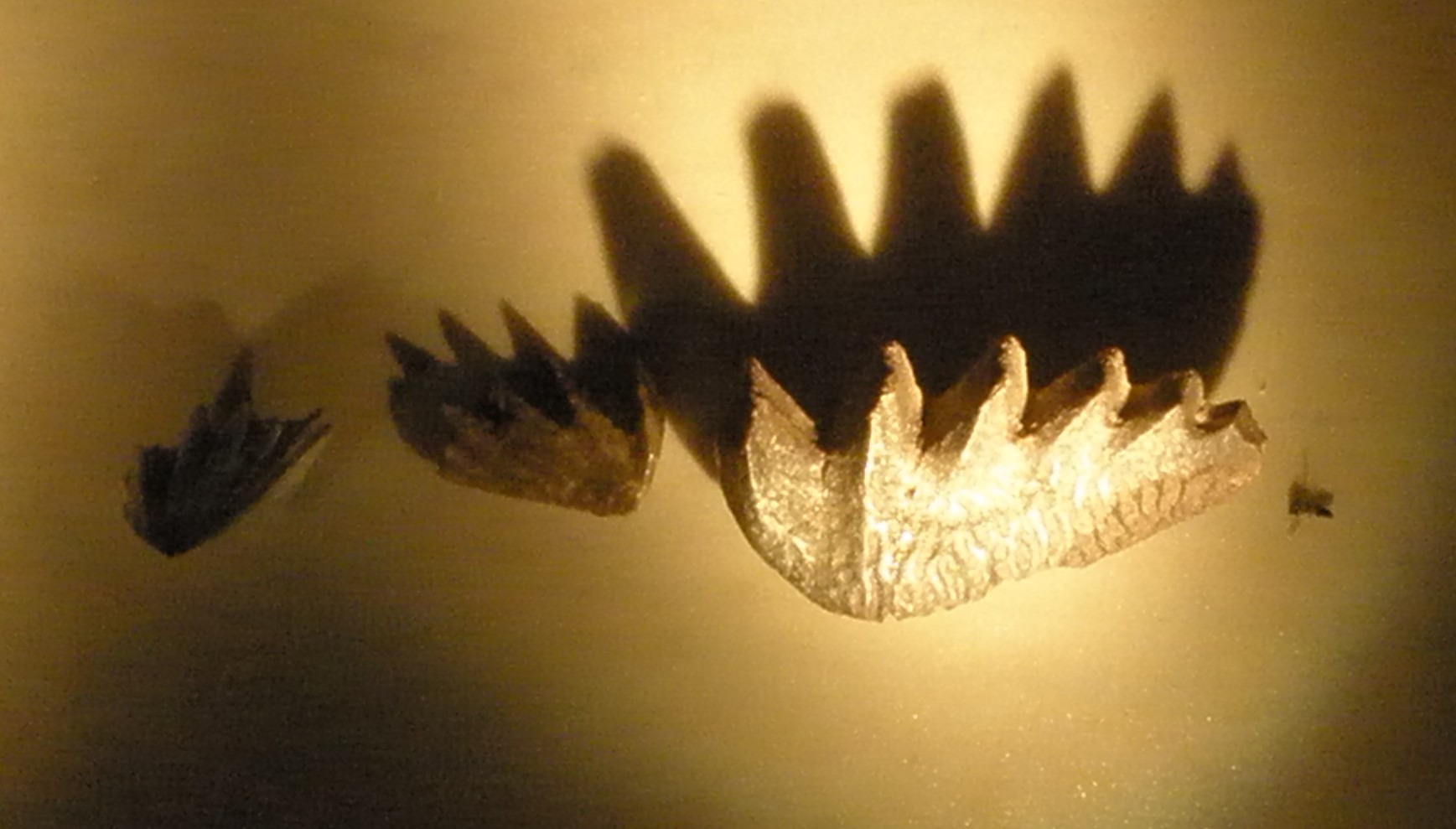 Took the photo at Museo di Storia Naturale di Venezia